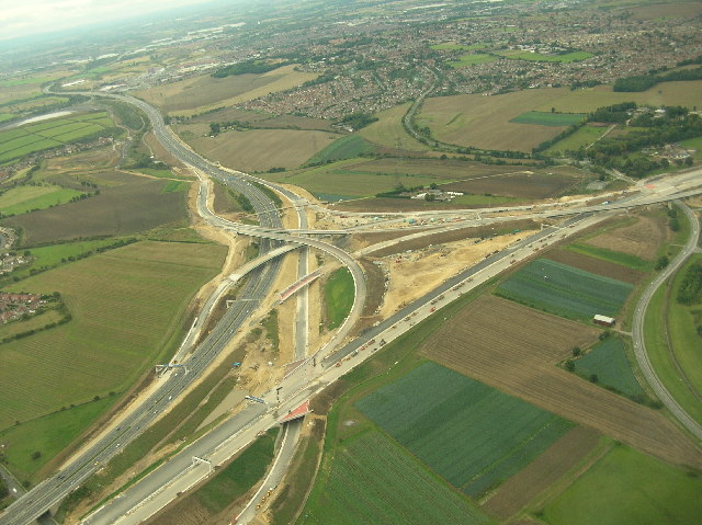 New Interchange A1(M) / M62 Ferrybridge